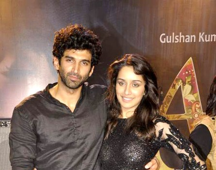 Shraddha Kapoor at Live concert of Aashiqui 2